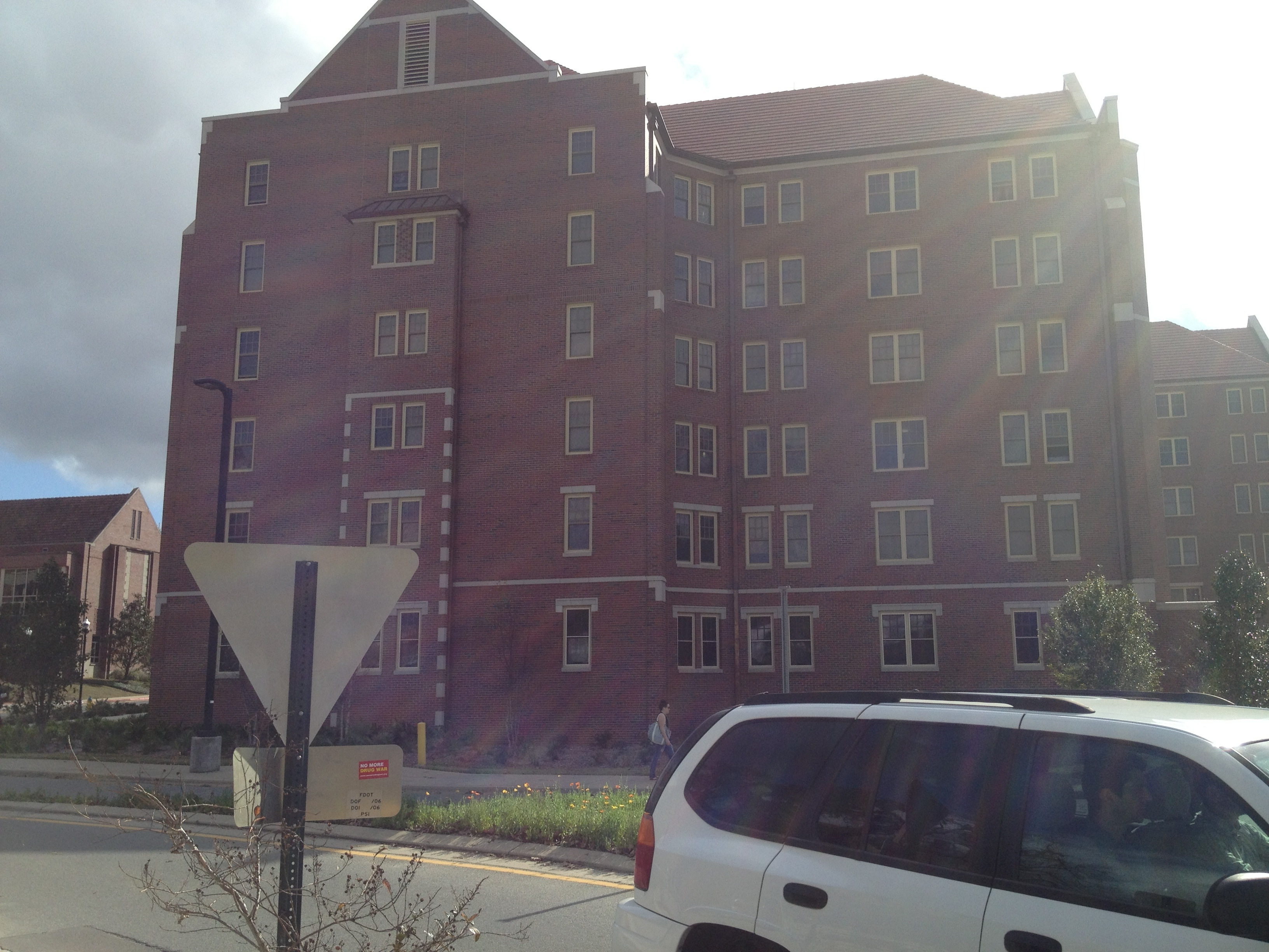 Traditions Hall FSU